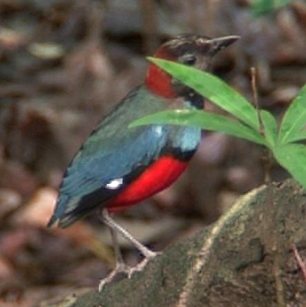 Papuan pitta in the Iron Range NP, northern Queensland, Australia